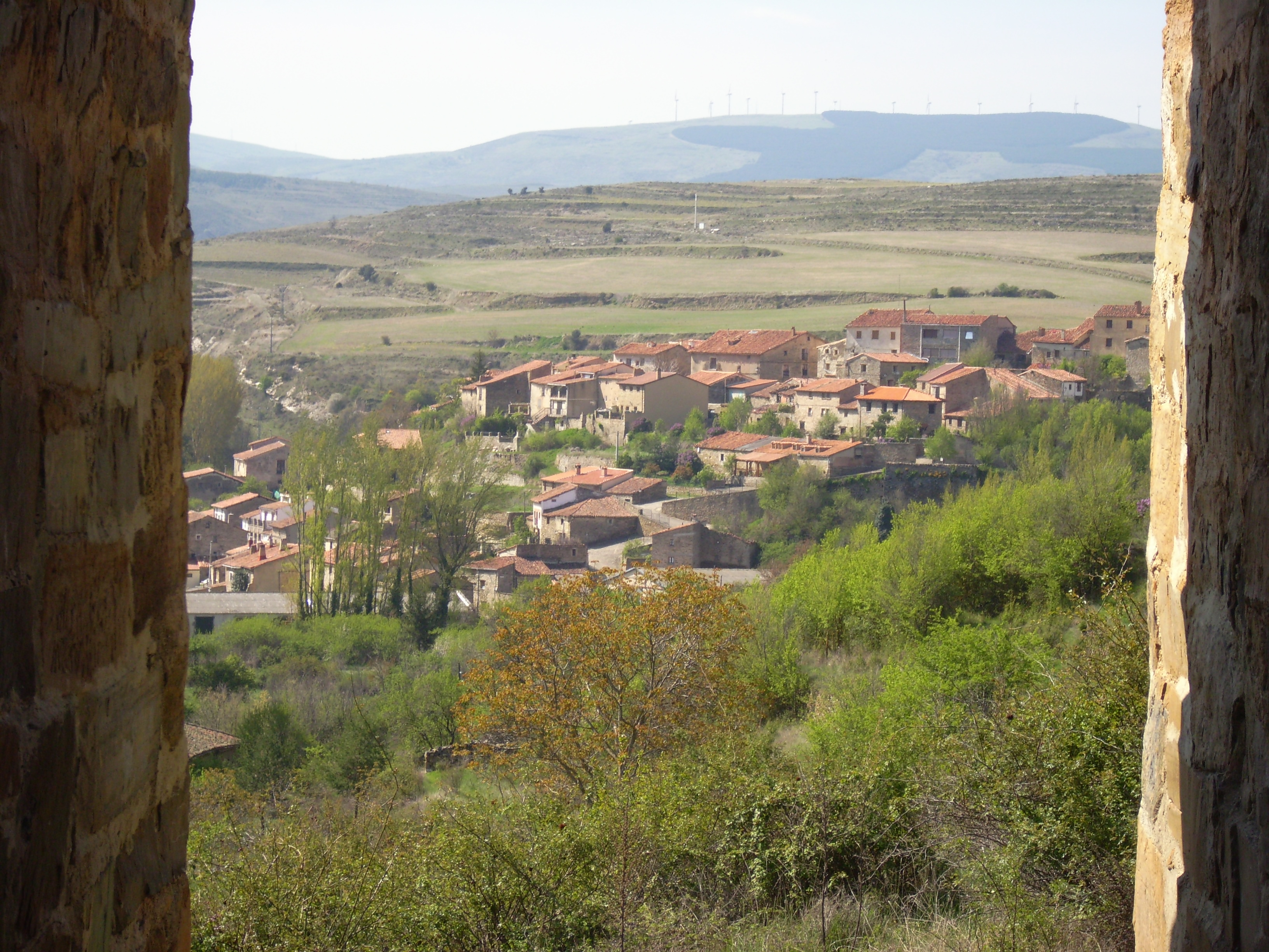 View of the Spanish town of Yanguas, in the province of Soria. Picture taken from the San Miguel Tower.